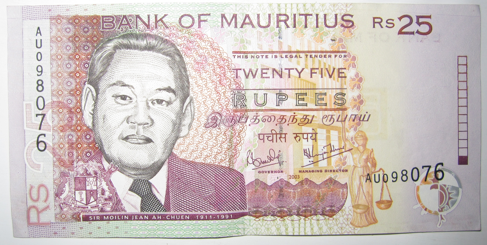 Mauritius Banknote - 25 rupees from 2003 Sir Moilin Jean Ah-Chuen